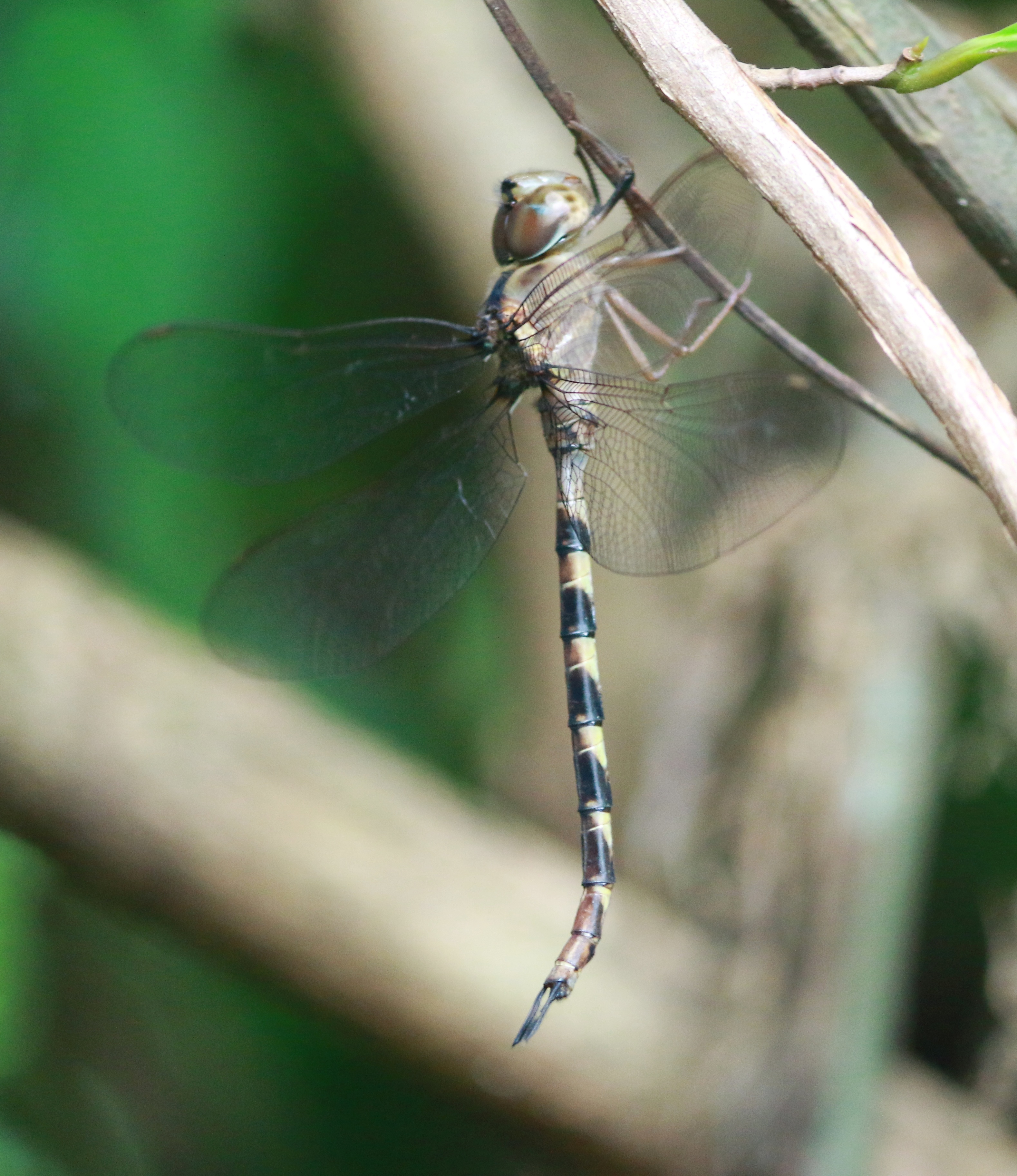 Gynacantha dravida (Brown Darner)